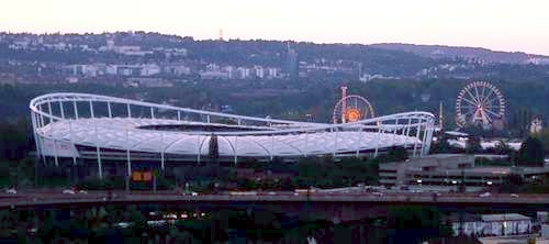 Mercedes-Benz-Arena Stuttgart 2002, with the Cannstatter Volksfest (or Spring Carnival) seen in the background. Description (EN) Mercedes-Benz-Arena Stuttgart Photographer: Enslin Date: 2002 Source: German Wikipedia